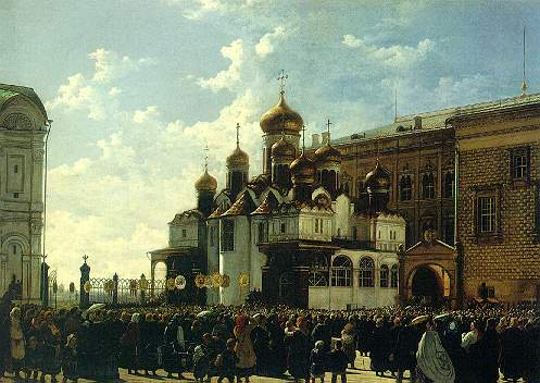 Religious procession from the Blagovecshensky (Annunciation) Cathedral in the Kremlin